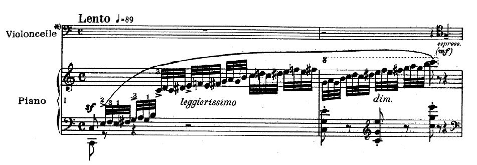 Frederic Chopin's Introduction and Polonaise brillante in C major, Op. 3